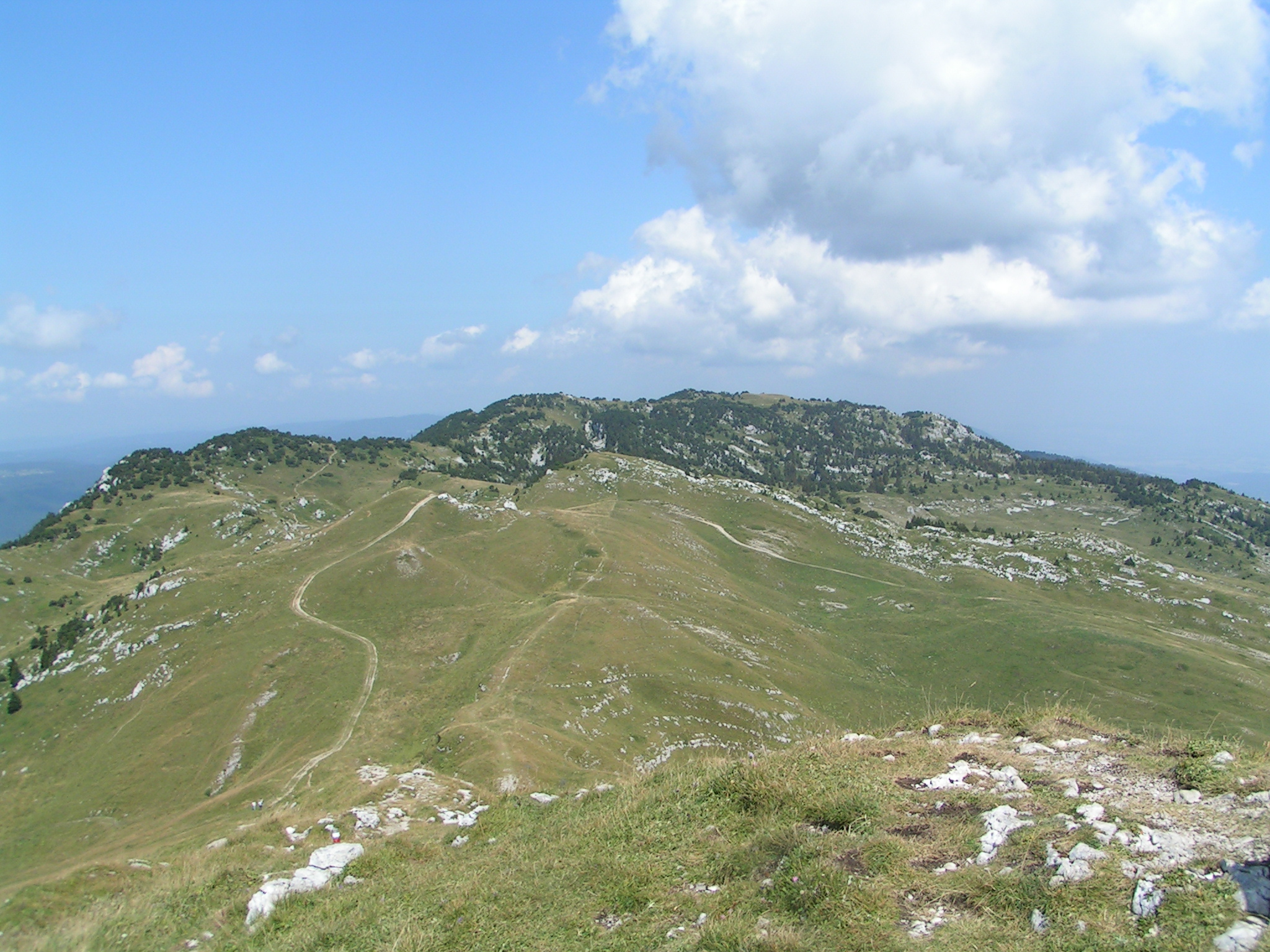 Crêt de la Neige view from the summit of Le Reculet.